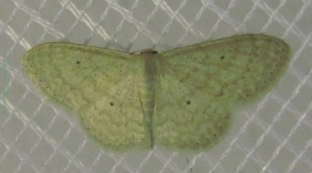 Scopula sp. moth Geometridae This Scopula sp. is or: Scopula minorata minorata (Boiduval, 1833) or Scopula lactaria (Walker, 1861). Both species look same and can be distinguished only by genetalia examination. Wingspan: 17mm This picture was taken in Réunion